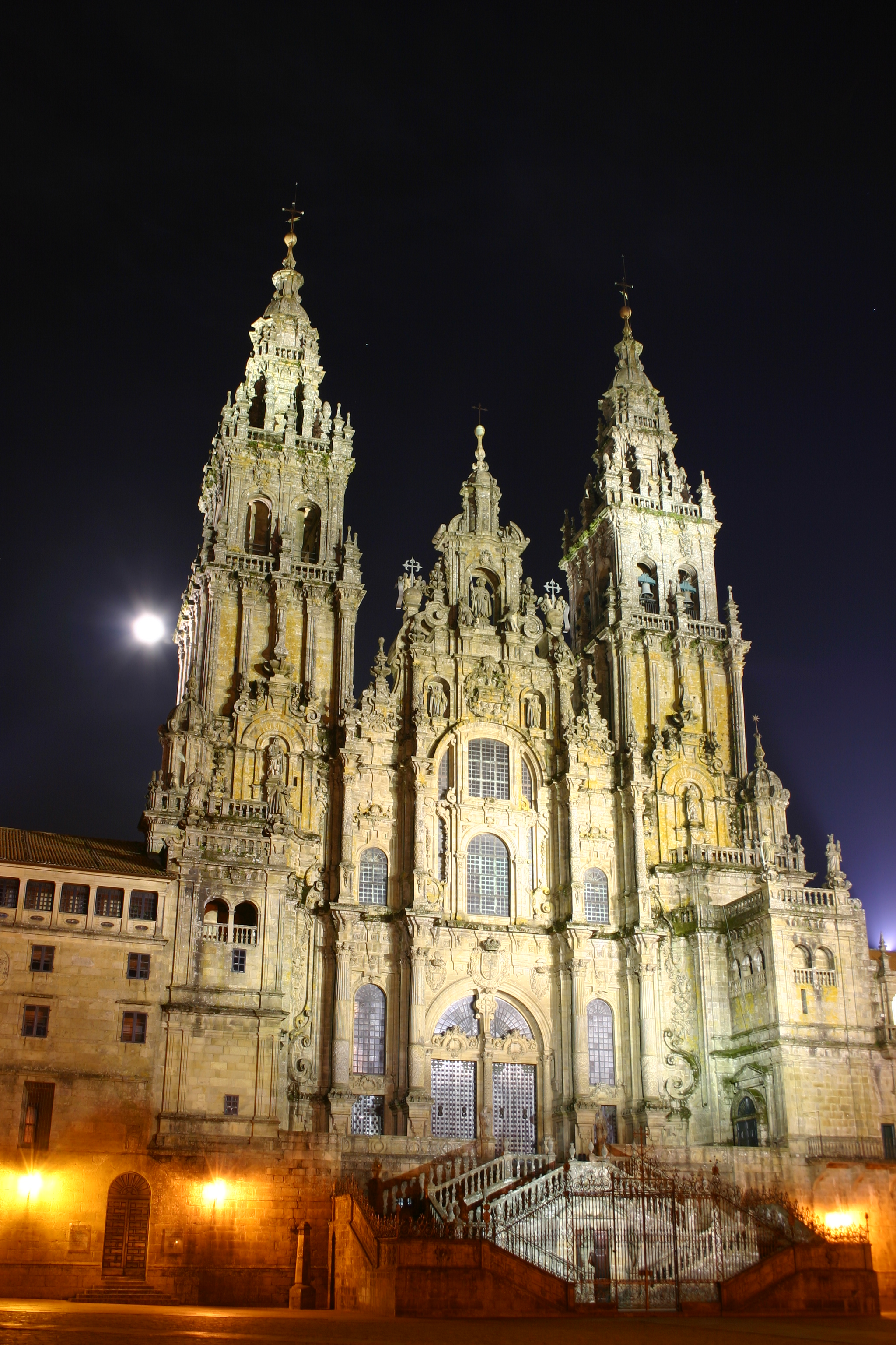 Santiago de Compostela: Cathedral at night